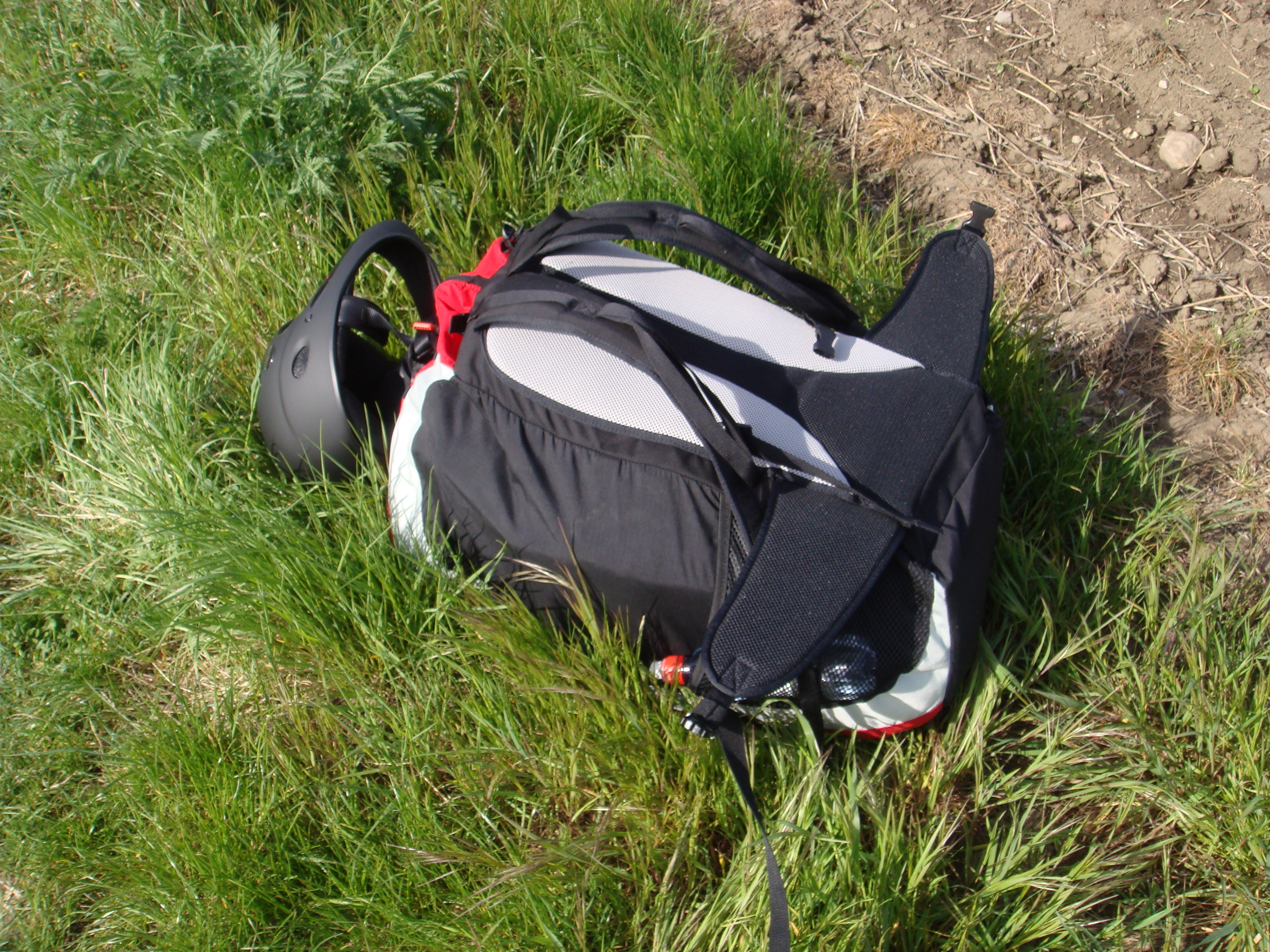 Here's everything needed to get airborne.